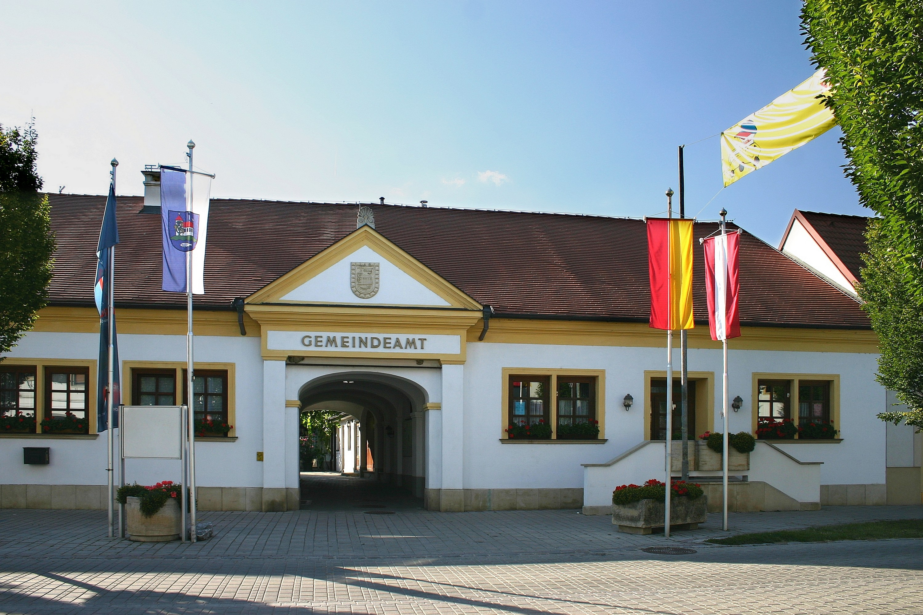 Mörbisch am See - Municipal office, street view